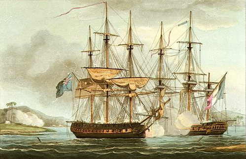 Capture of HMS Sybille capturing the Chiffone